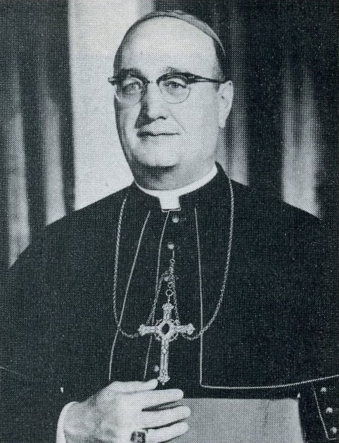 Most Reverend Ernest john Primeau, Sixth Bishop of Manchester